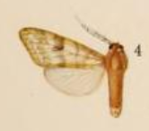 Drawing of Syntarctia fasciata